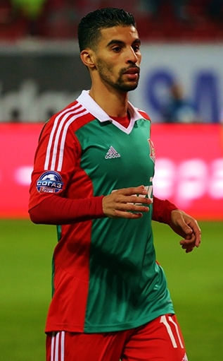 Mbark Boussoufa